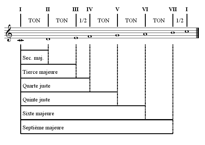 Major mode